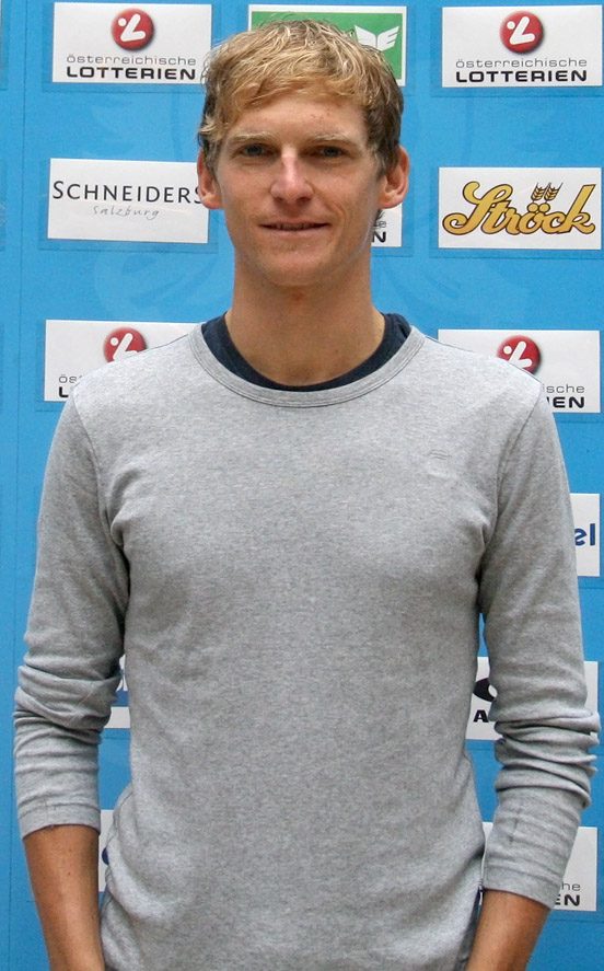 Triathlete Andreas Giglmayr at the hand-out of the Austrian teams official attire for the 2012 Summer Olympics in London (Marriott, Vienna).